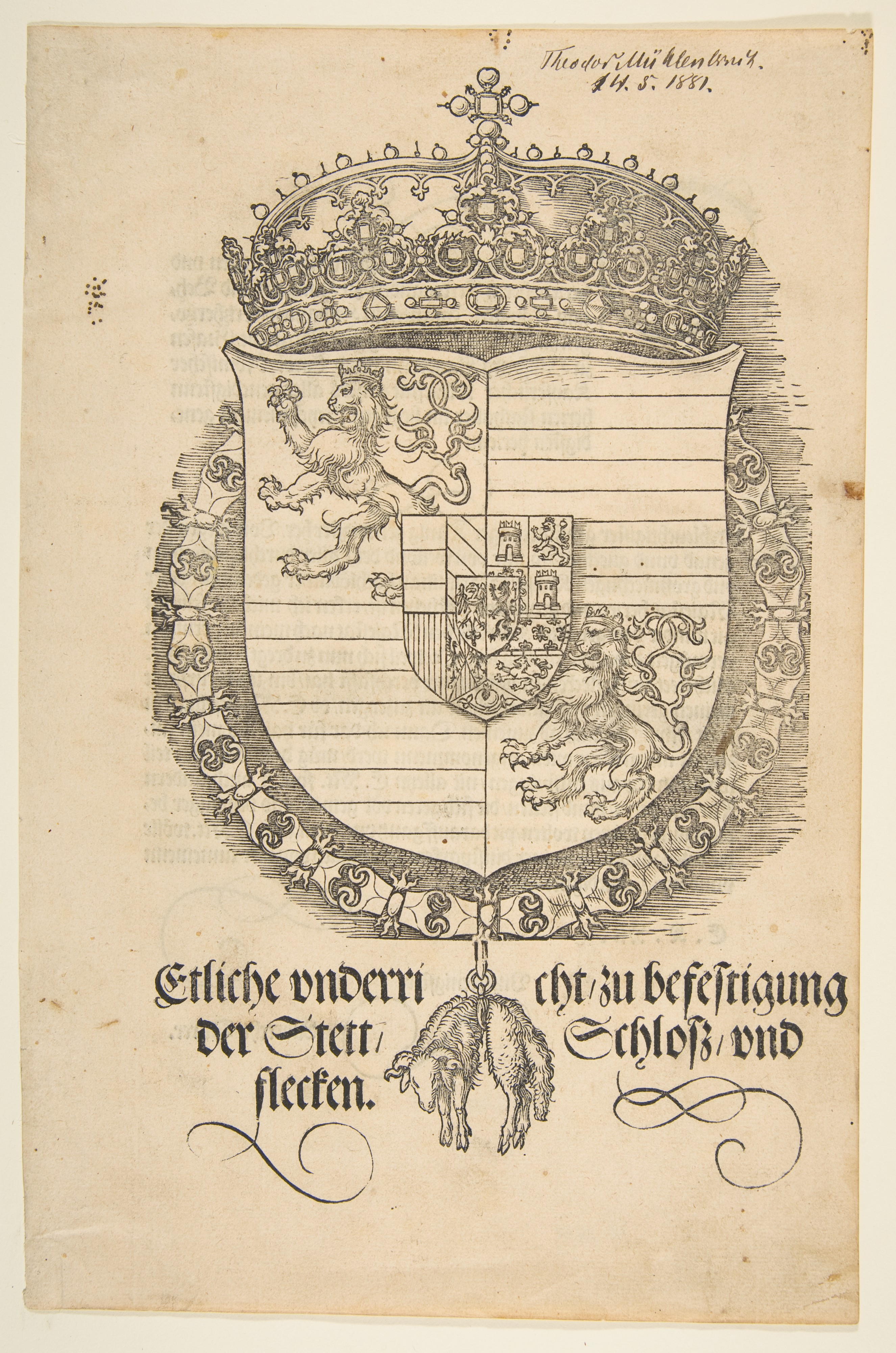 Print; Prints